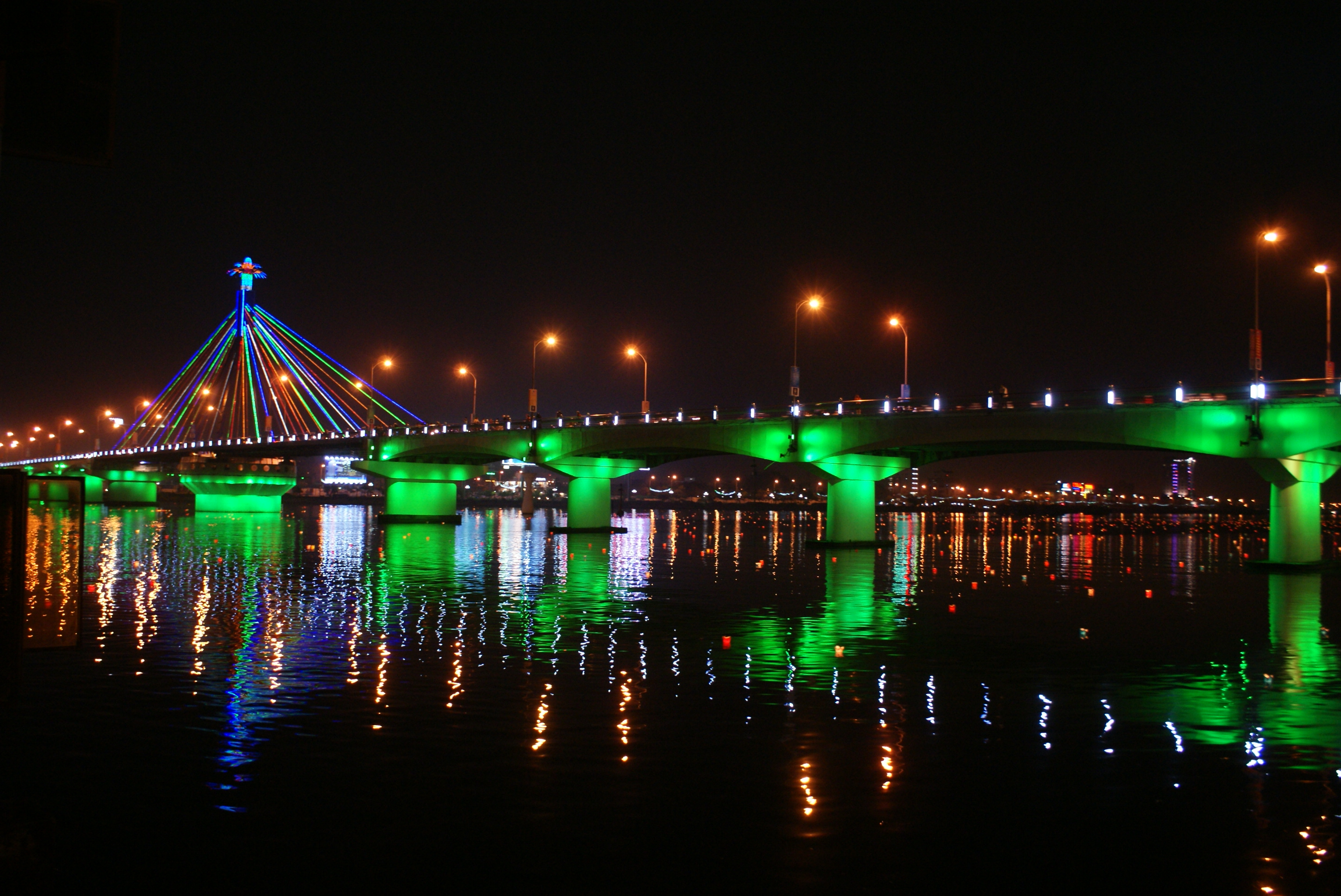 The Han River Bridge by night, lit up especially for the annual fireworks festival.